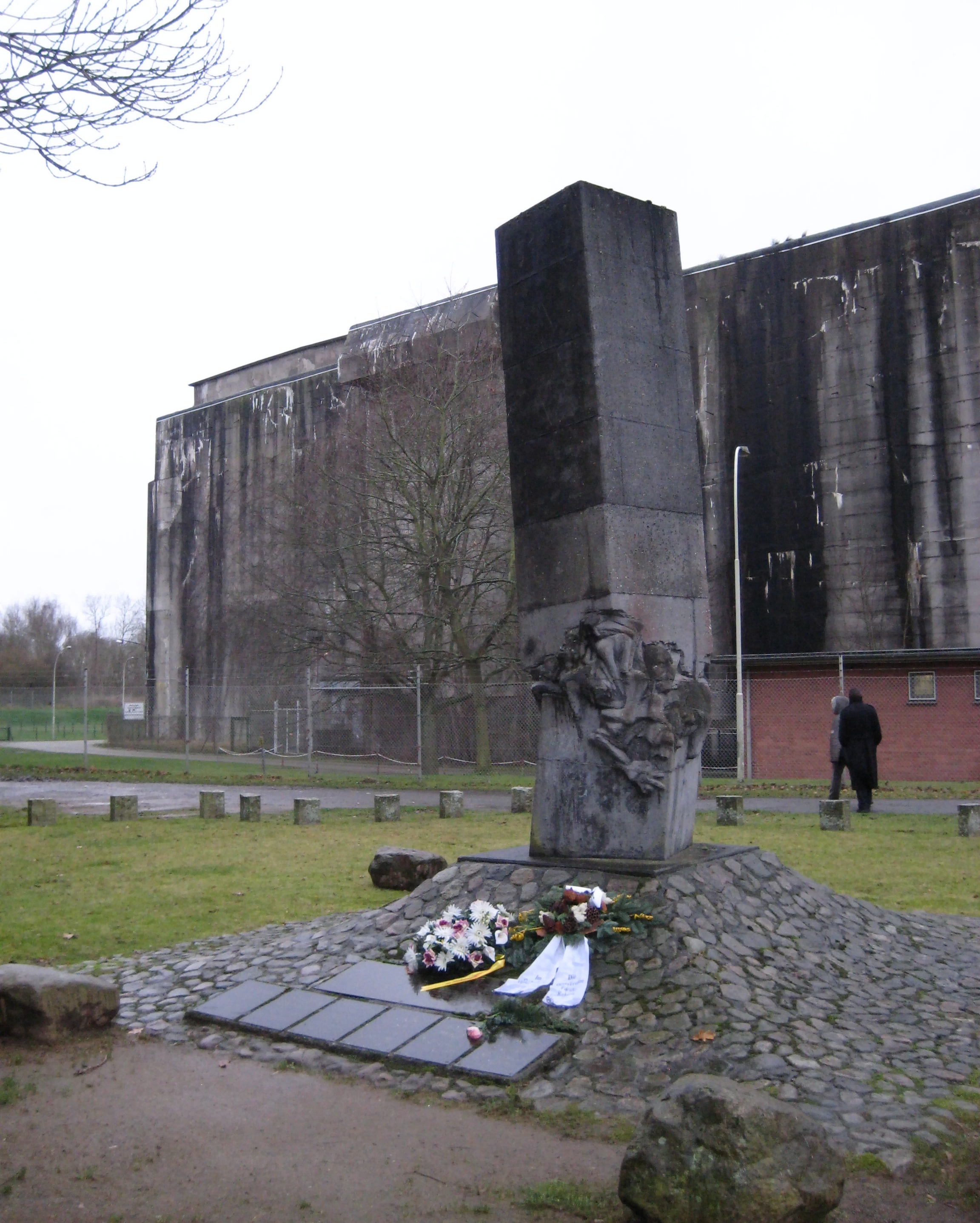 Monument Vernichtung durch Arbeit (Extermination through labor) in front of the WWII Valentin submarine pens in Bremen-Farge in Germany. The monument is dedicated to the forced laborers and prisoners which were killed during the erection of the bunker. It was created by artist Friedrich Stein of Bremen and was inaugurated September 16, 1983.